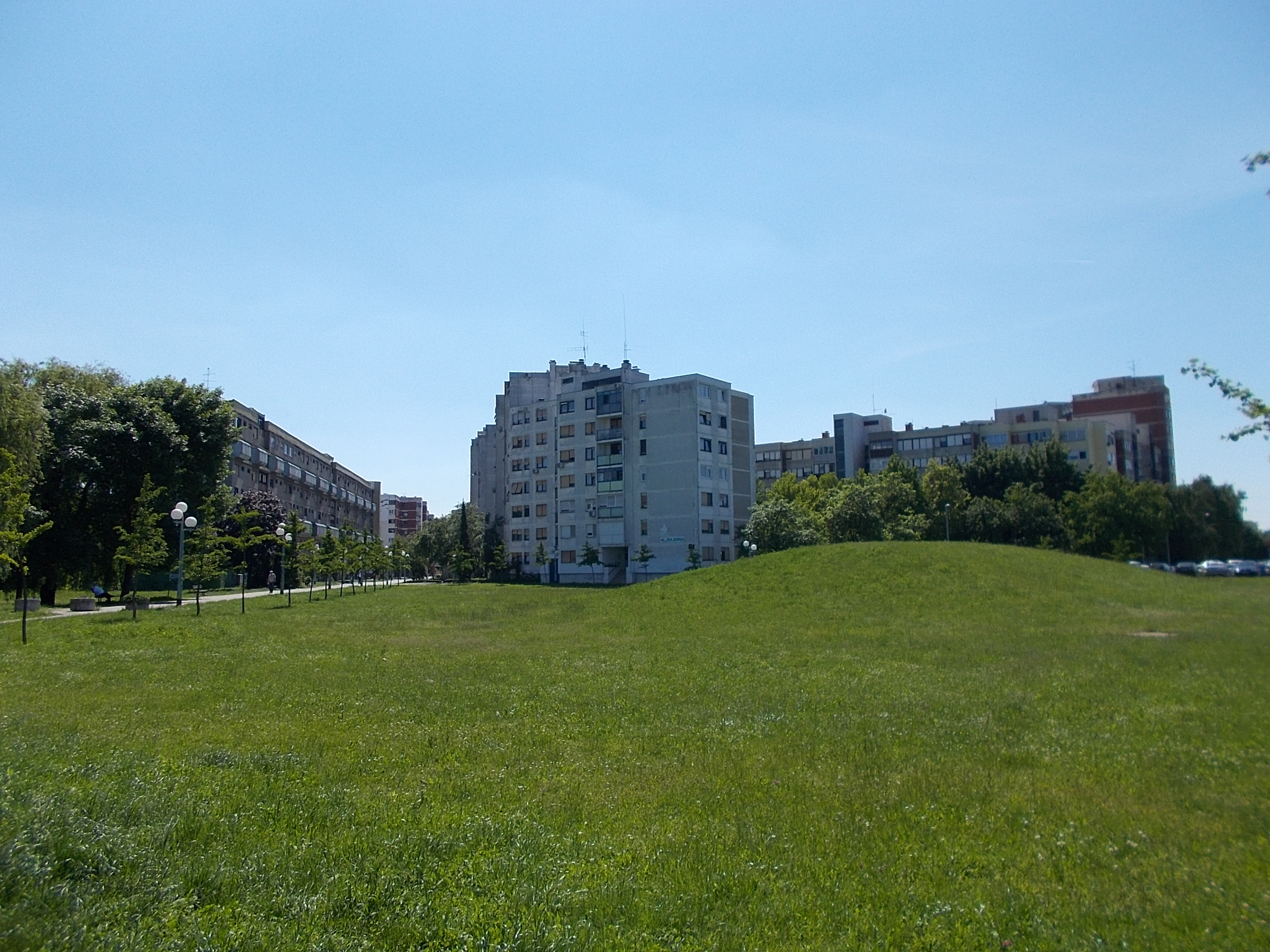 Residental buildings in Sloboština, Novi Zagreb.